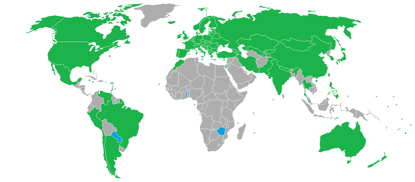 Participant nations at the 2014 Winter Olympics in Sochi Green = Full participation. Blue = New winter olympics countries